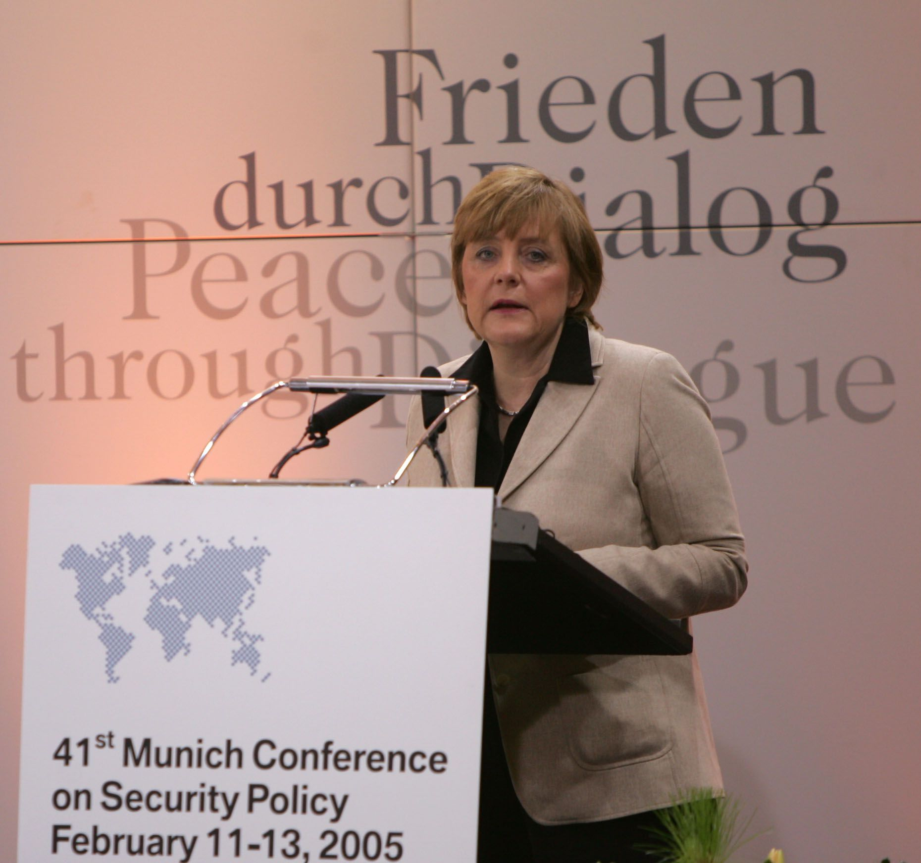 41st Munich Security Conference 2005: The Chairwoman of the CDU Germany and Chairwoman of the CDU/CSU Parliamentary Group, Dr. Angela Merkel during her speech.